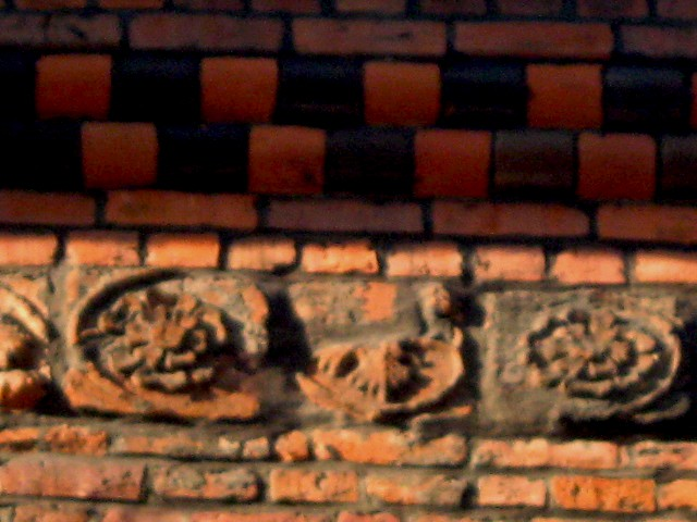 The frieze about flowery motive on corps the nave of StMary's church in Gryfice (Poland)